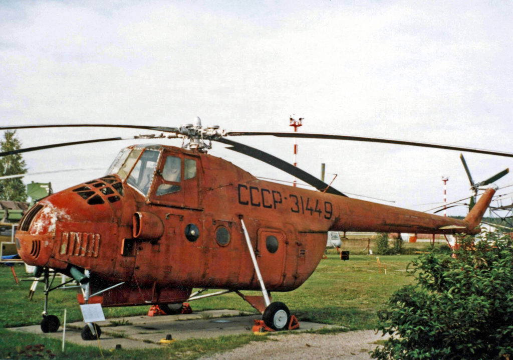 Mil Mi-4 Hound CCCP-31449 in arctic markings at the Riga Aviation Museum in 2005